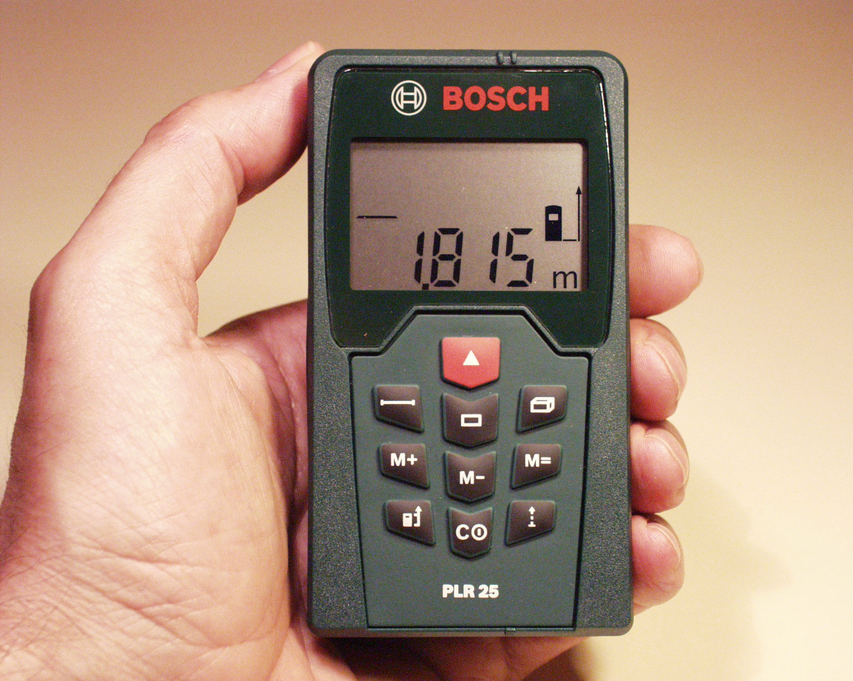 Laser rangefinder PLR25 (Bosch)